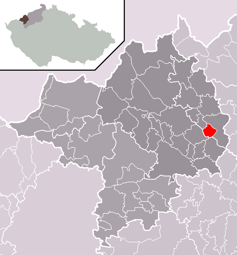 Location of Všestudy municipality within Chomutov District and administrative area of Chomutov as a Municipality with Extended Competence.